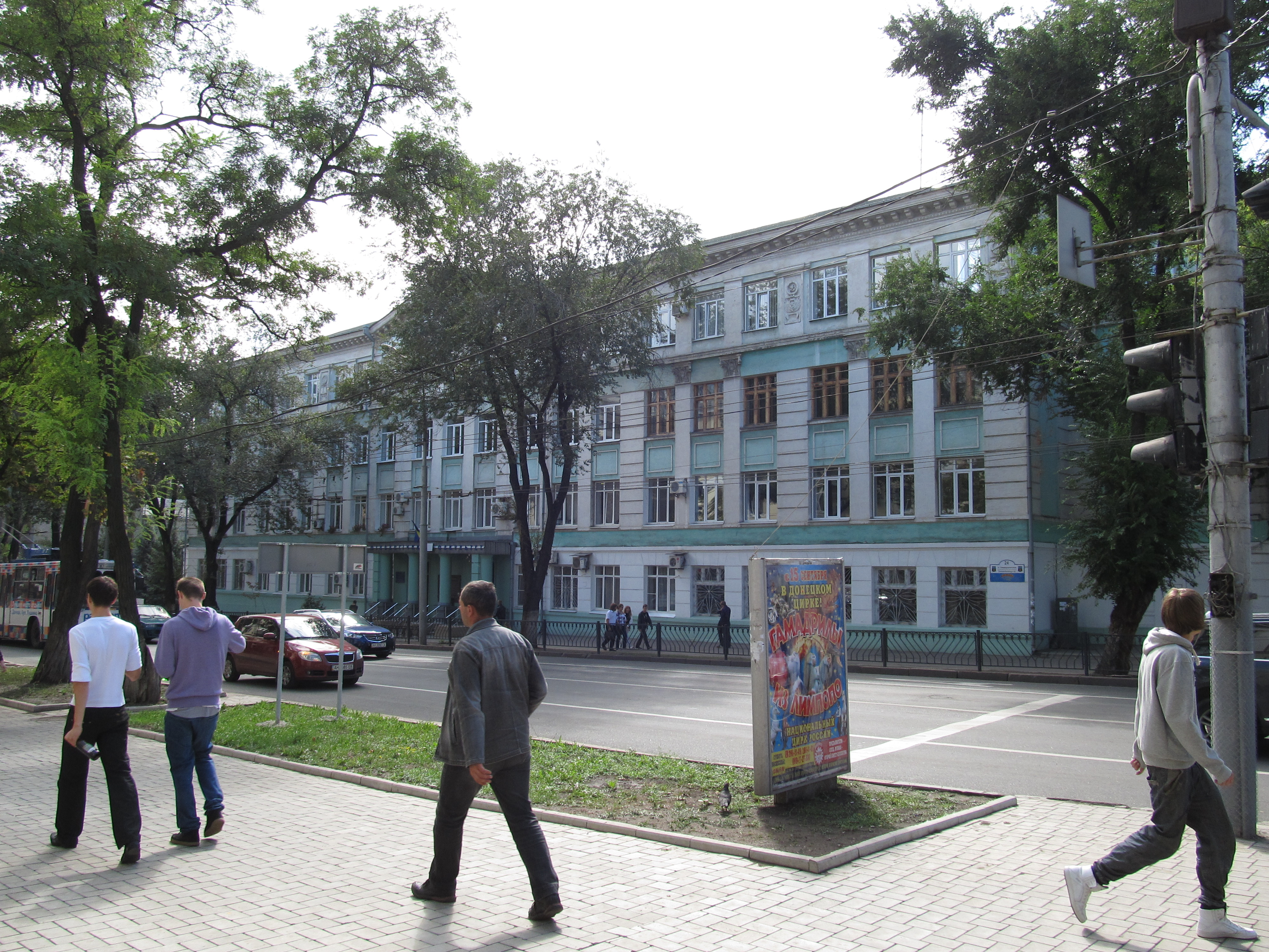 House, where studied Stus V., Ukrainian poet